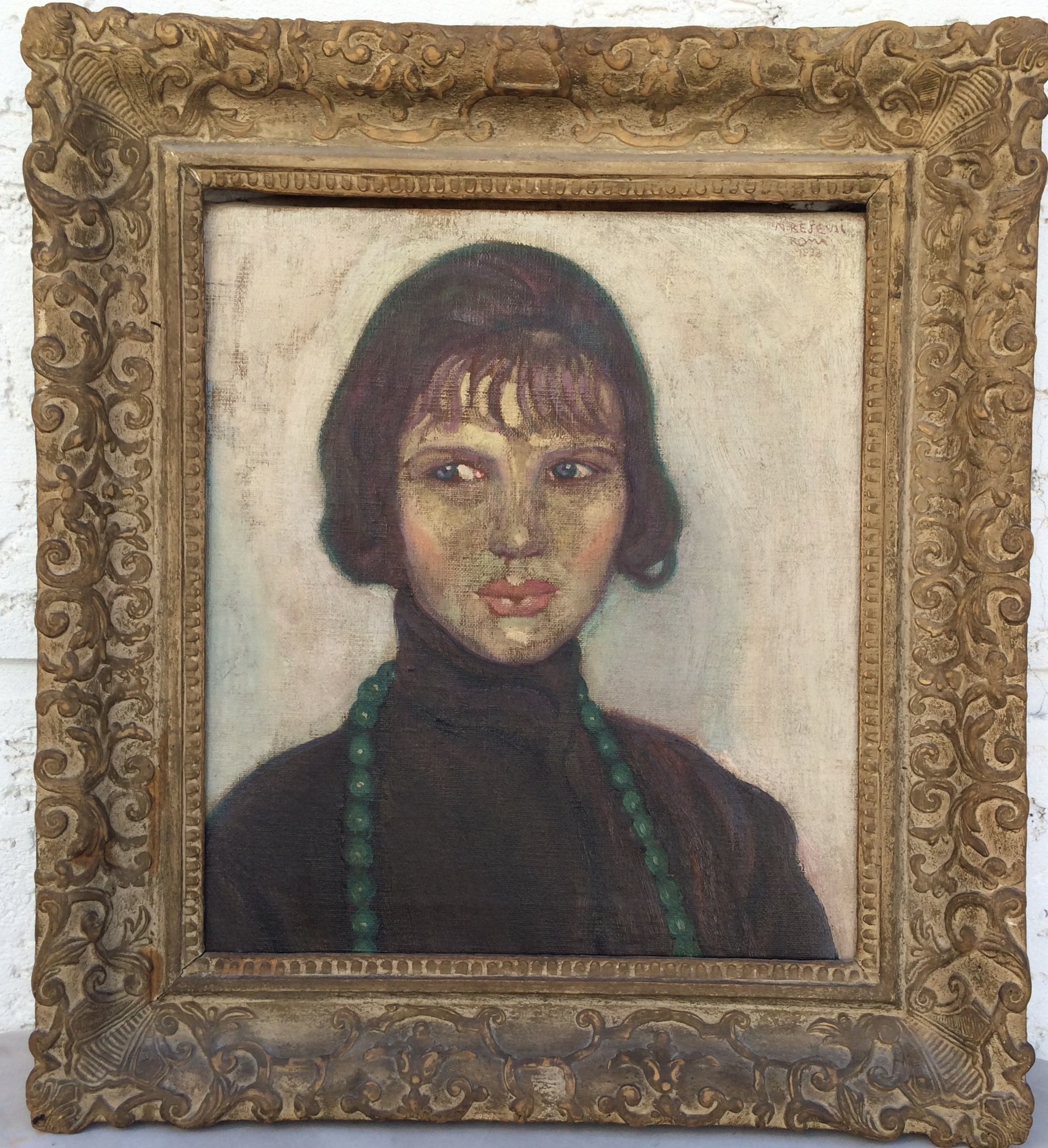 A painting of Alice Bešević by Nikola Bešević. It can be seen in the Society for Culture, Art and International Cooperation Adligat in Belgrade, Serbia.